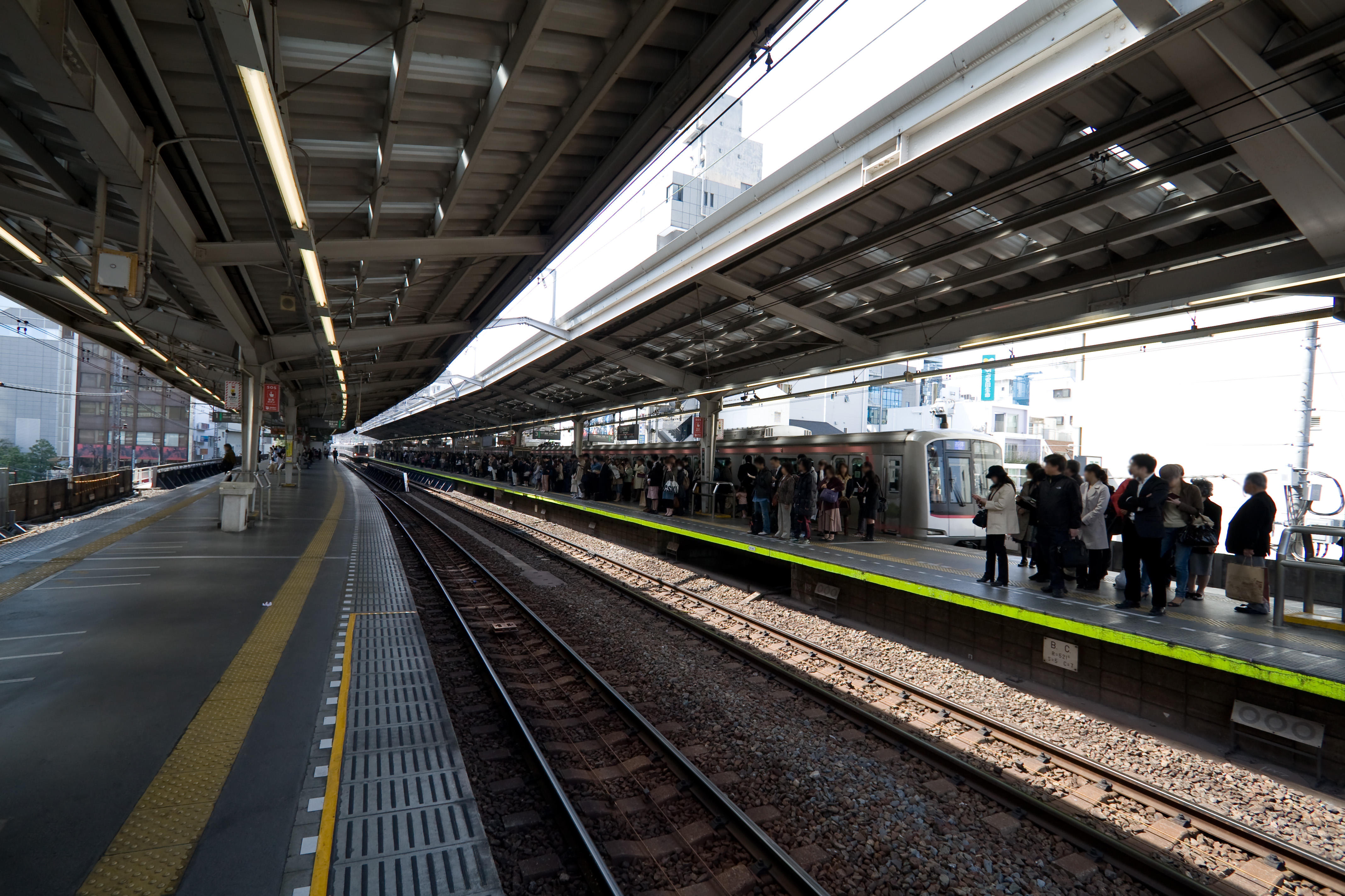 Nakameguro Station Platform